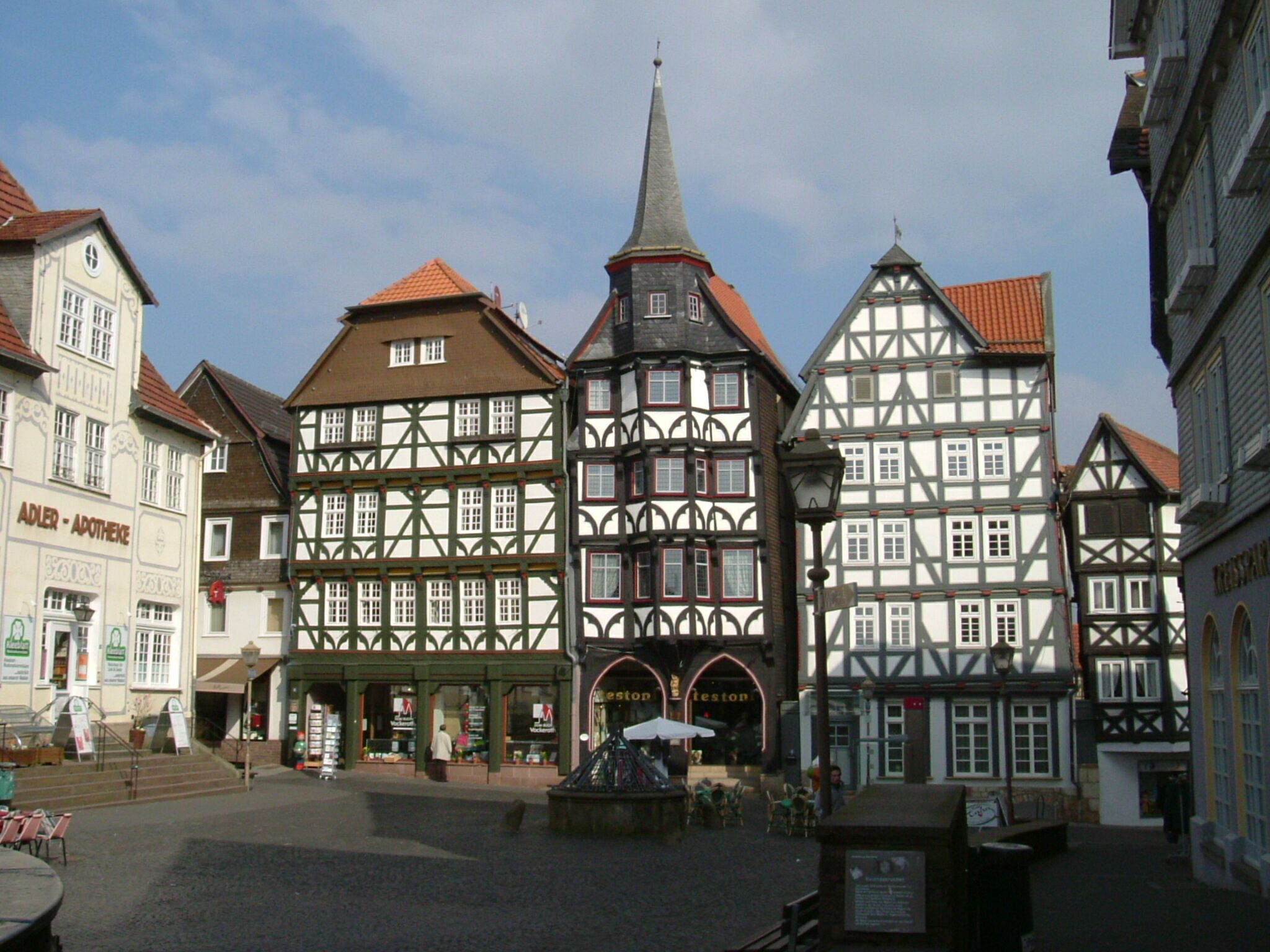 Fritzlar, Germany. Old houses Author: Peter Kaboldy, 03. 2007.